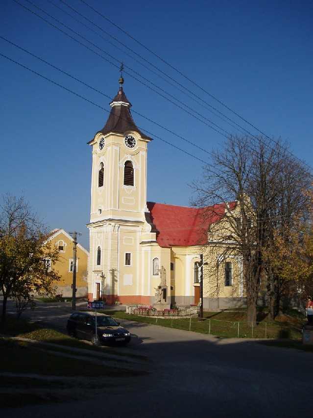 Capilla en Petrova Ves